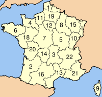 Map of France, showing all pre-2016 regions: Alsace Aquitaine Auvergne Basse-Normandie Bourgogne Bretagne Centre Champagne-Ardenne Corse (special status) Franche-Comté Haute-Normandie Île-de-France Languedoc-Roussillon Limousin Lorraine Midi-Pyrénées Nord-Pas-de-Calais Pays de la Loire Picardie Poitou-Charentes Provence-Alpes-Côte d'Azur Rhône-Alpes